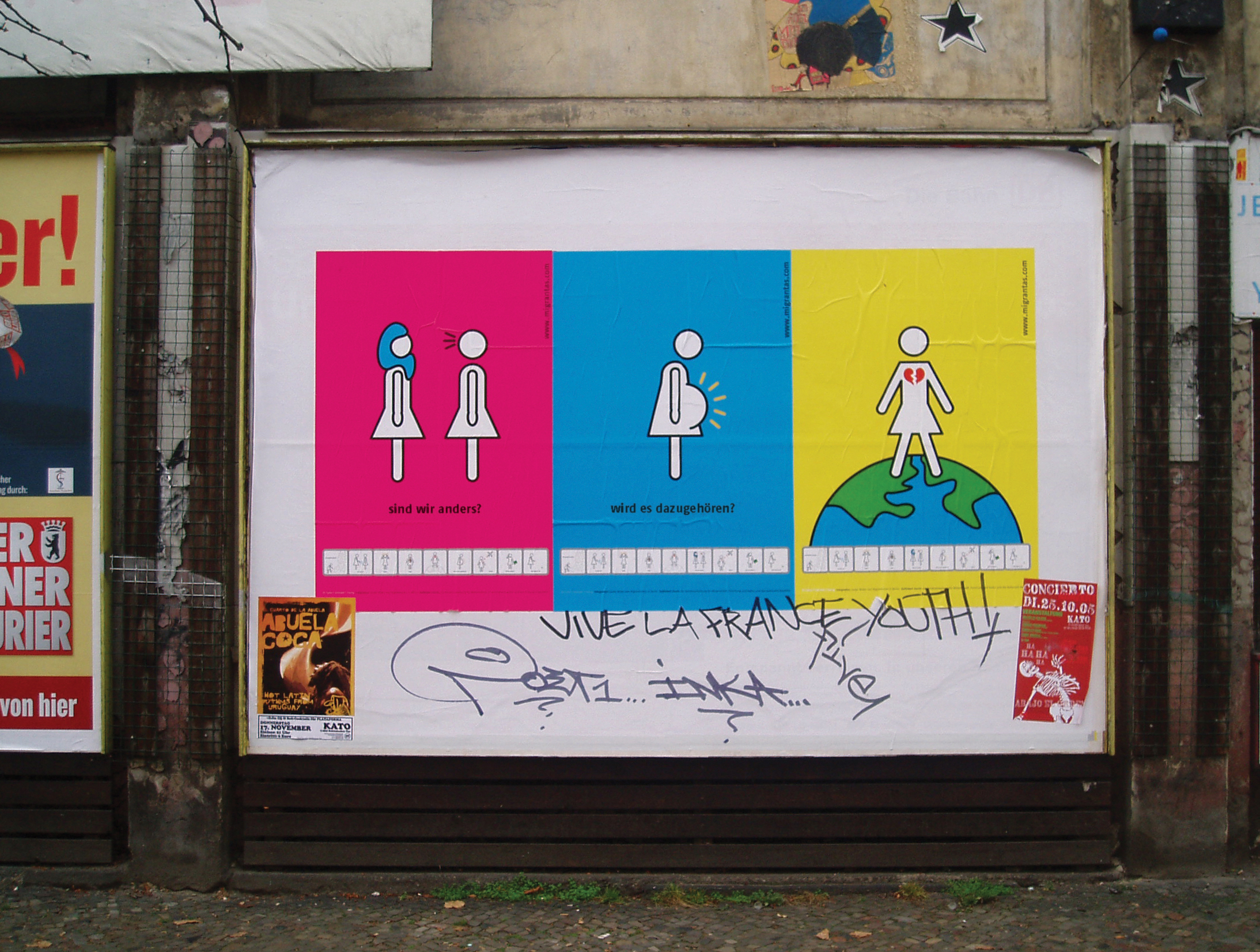 Posters as part of an urban action in Berlin-Neuköln